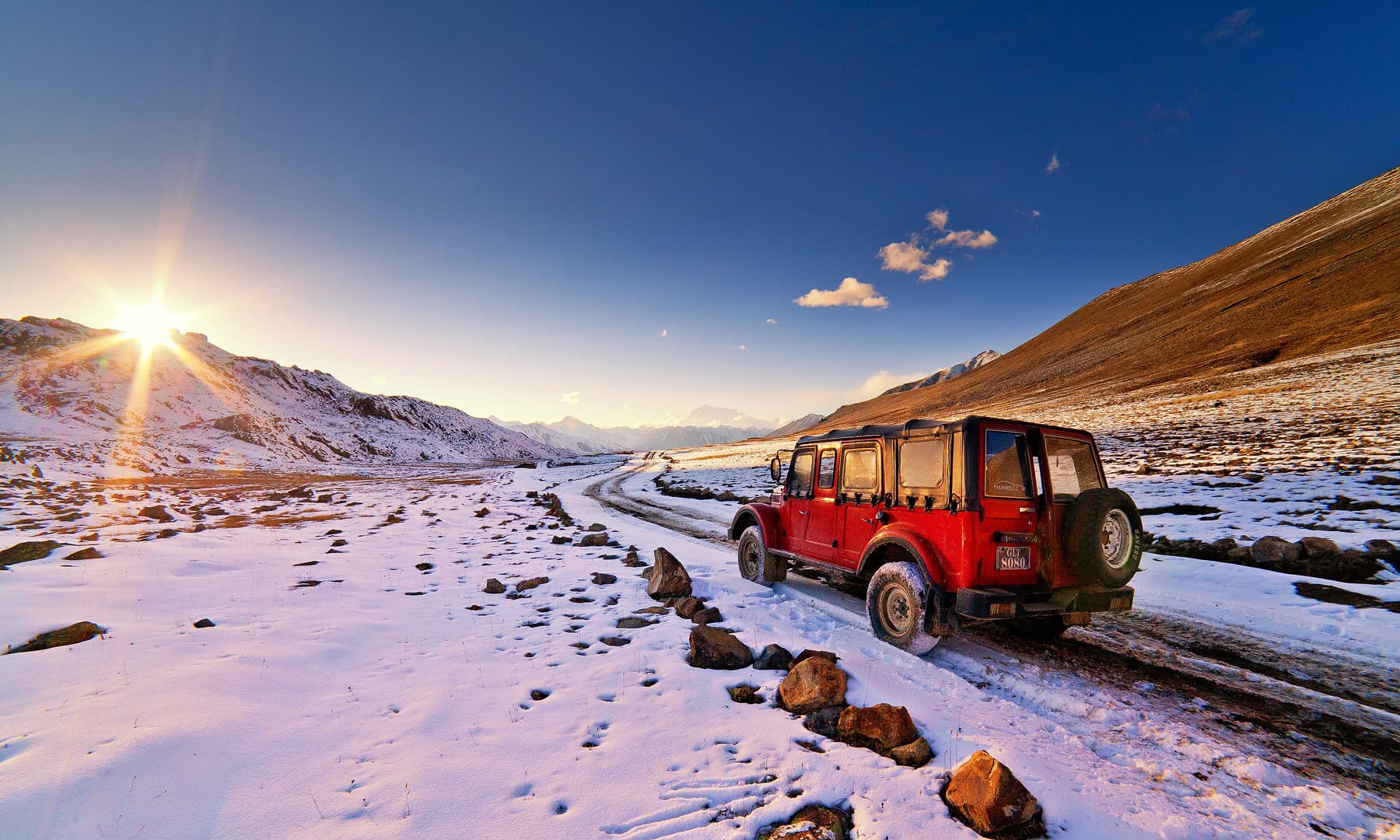 Deosai Plains is the Paradise present at Gillget Baltistan